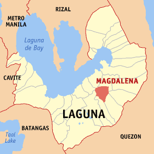 Locator map of Magdalena in Laguna, Philippines.